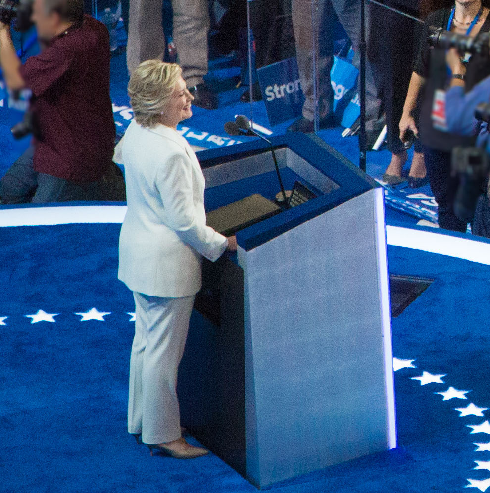 Hillary Clinton Speech at Democratic National Convention (July 28, 2016)